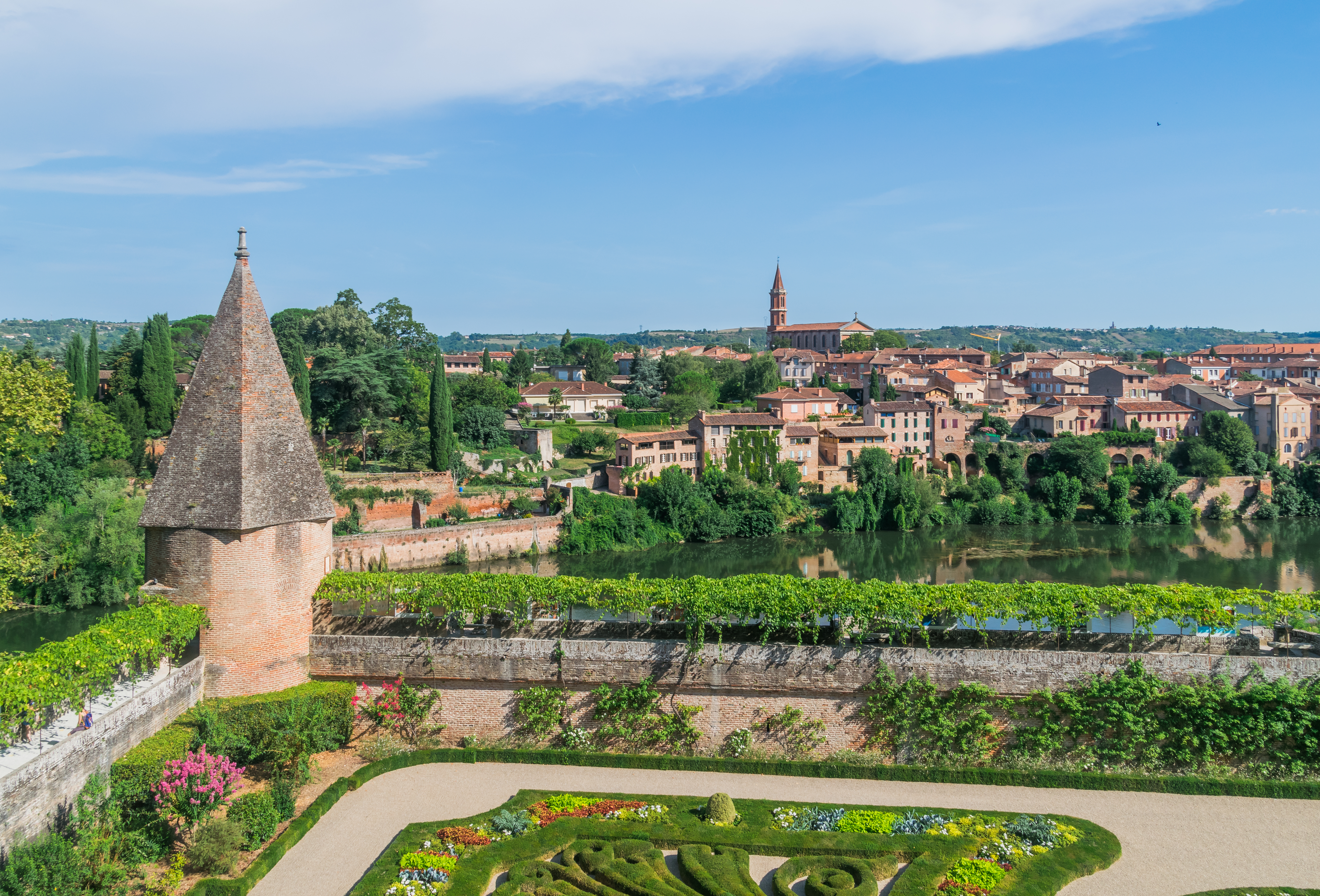 Garden of the Palais de la Berbie in the foreground, the right bank of Tarn River in the background, Albi, Tarn, France .